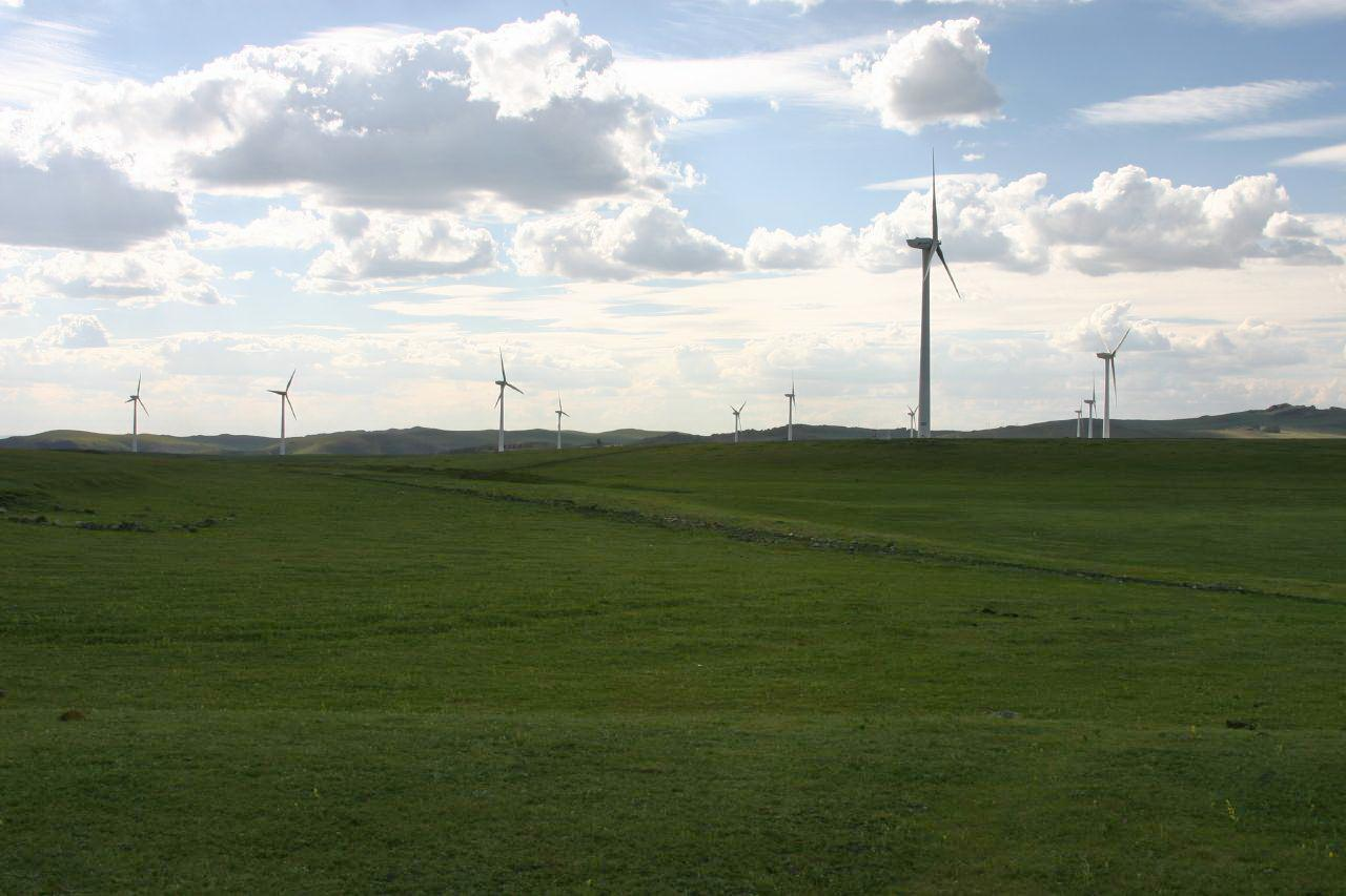 Huitengxile wind farm, Inner Mongolia, People's Republic of China